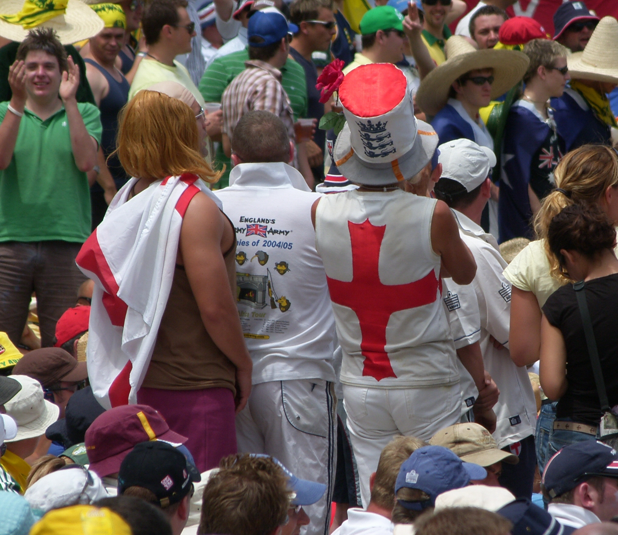 Barmy Army at Adelaide Oval in 2006.